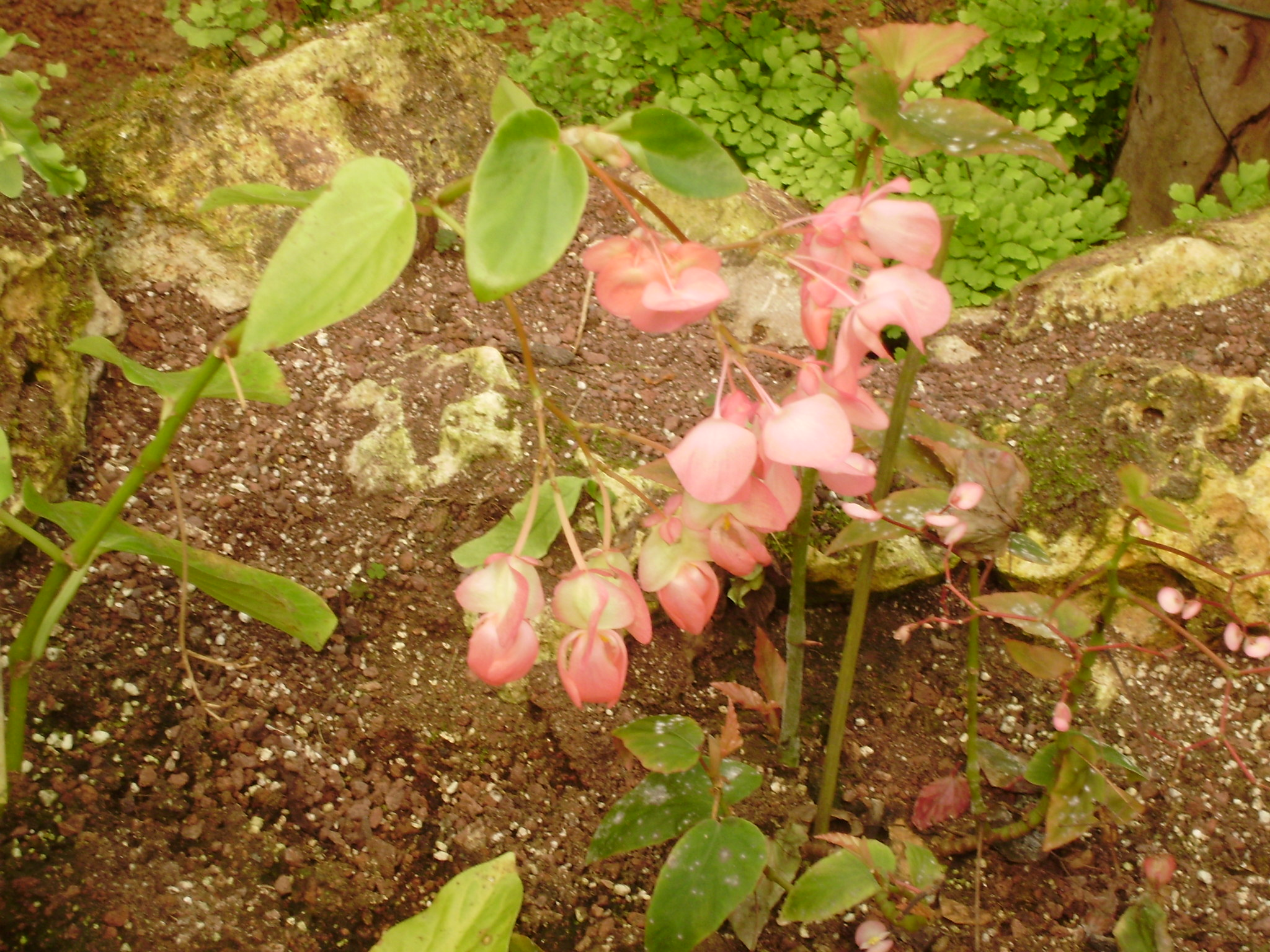 Begonia Metallica, Tel-Aviv University botanic gardens, TAU, Ramat-aviv, Tel-Aviv, Israel.